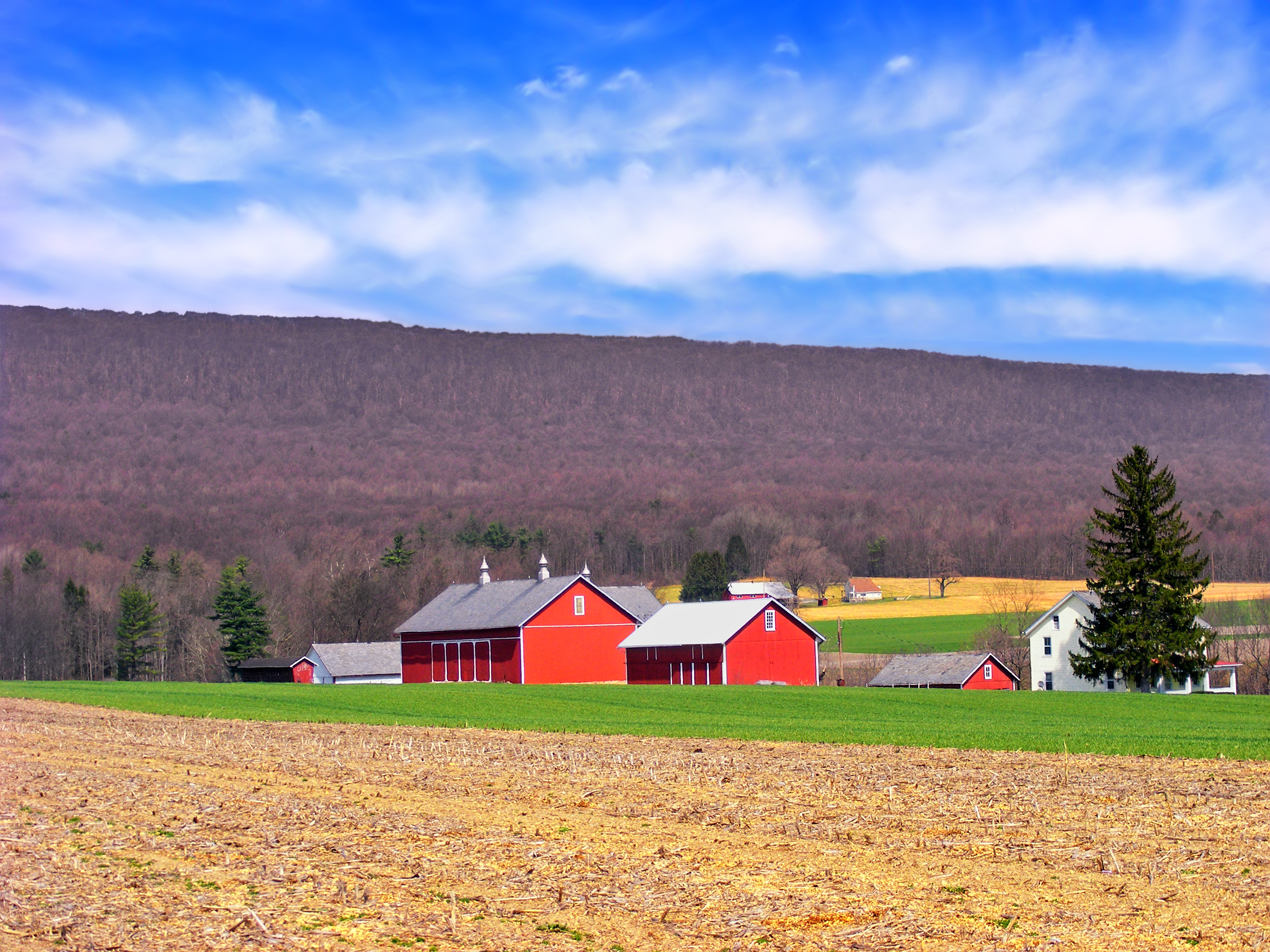 Farmstead, Heidelberg Township, Lehigh County.